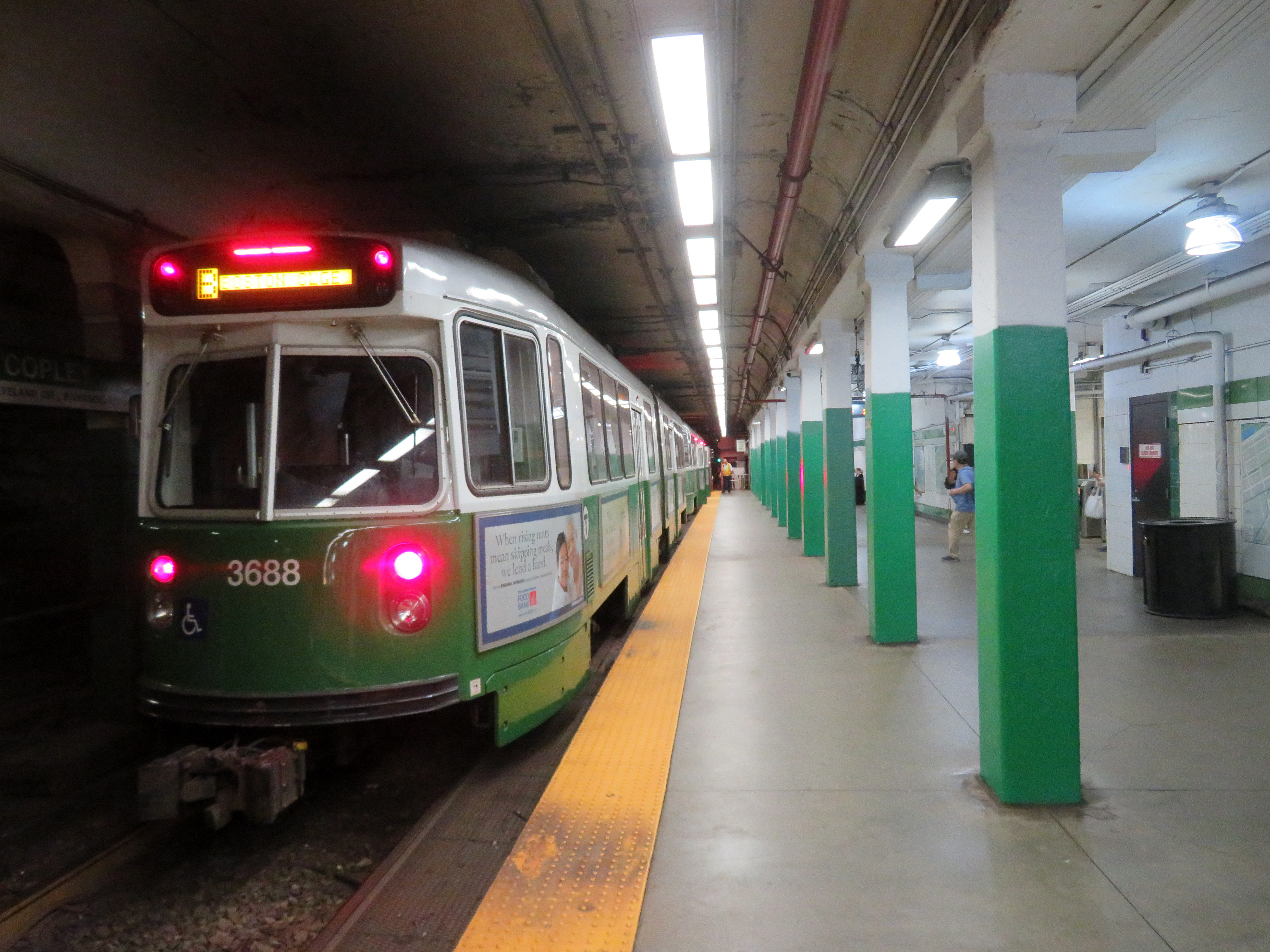 An outbound train at Copley station in July 2019